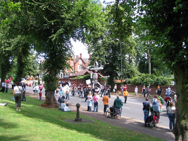 Godiva Carnival Procession passing Top Green. The procession has come from the city centre and is heading up Warwick Road to the nearby Memorial Park to join the Godiva Festival. In the foreground is an old drinking fountain ( 370262 ). The Godiva procession has origins in the legend which became associated with the 11th century benefactress of the city, Lady Godiva, who was supposed to have ridden naked through the city to obtain relief of the burden of taxes levied on the citizens by her husband Earl Leofric. The processions began in 1678 and have continued intermittently since, reaching a peak of popularity in the 19th century. During the second half of the 20th century the Godiva aspect was lost to become Coventry Carnival and eventually, with the loss of the large firms and their apprentice schools, became little more than a series of advertising floats and fizzled out. In 1997 the Godiva procession was revived and in 2000 Coventry Carnival returned with arts group inspired costumes and tableaux. In 2003 the two combined to become the Godiva Carnival Procession which is associated with the three day Godiva Festival held in the Memorial Park. The theme of the 2007 procession was the history of Carnival. Keywords: people, event